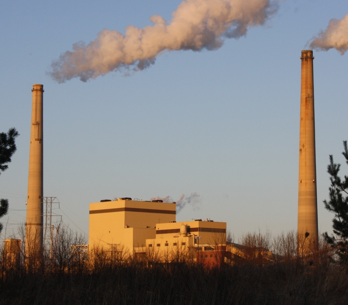 The Edgewater Generating Station in Sheboygan, Wisconsin, near sunset.